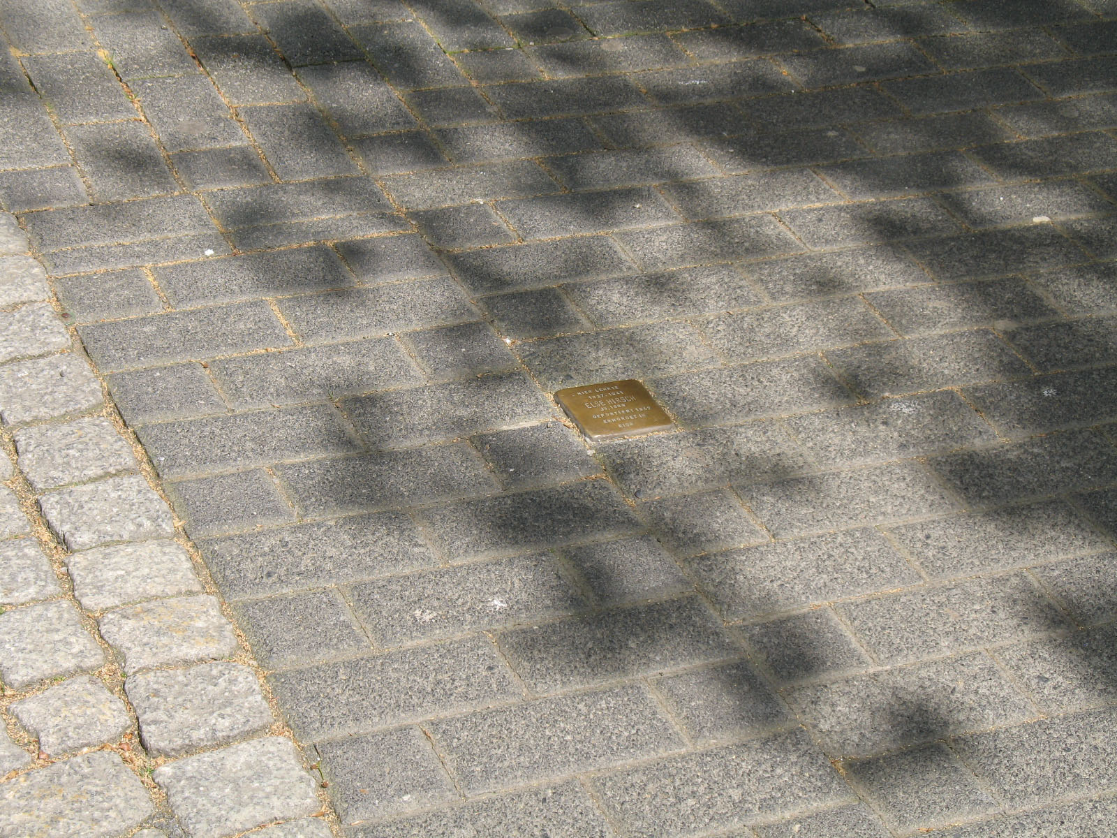 Stolperstein for Else Hirsch, seen from a distance. Else Hirsch was a Jewish teacher who organized 10 children's transports out of Nazi Germany. The commemorative plaque is located at Huestraße 28 in downtown Bochum, where Hirsch once taught. The plaque reads "Else Hirsch, b. 1889, taught here 1927-1941. Deported 1942. Murdered in Riga"